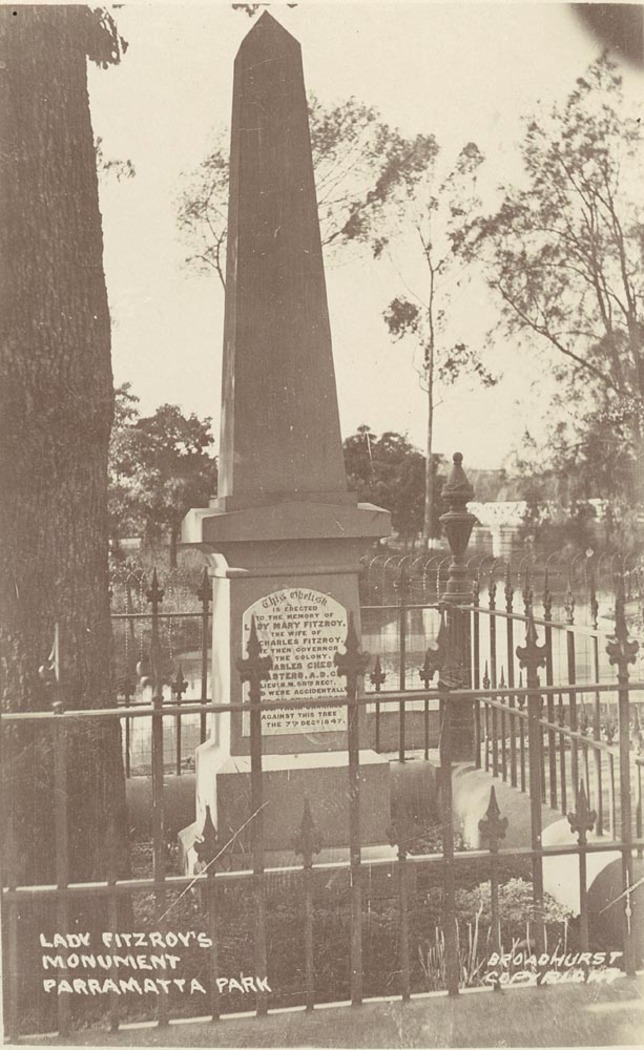 Lady Fitzroy's Monument, Parramatta Park